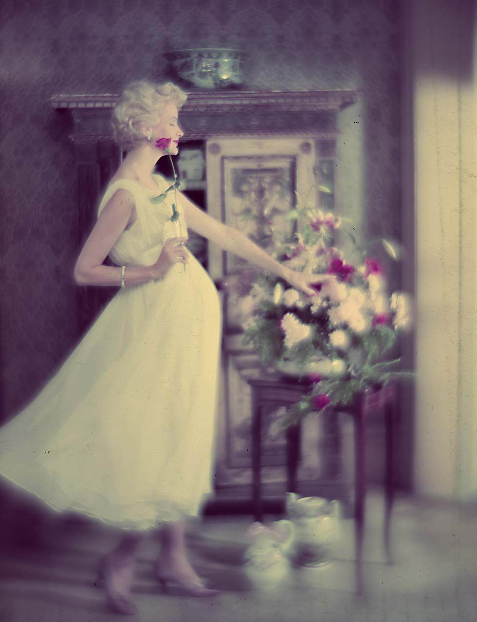 Fashion Model Sunny Harnett in a photo taken by photographer Edgar de Evia. © Edgar de Evia. David McJonathan owns all rights to photographs and other intelectual property from the Estate of Edgar de Evia as executor and legatee.